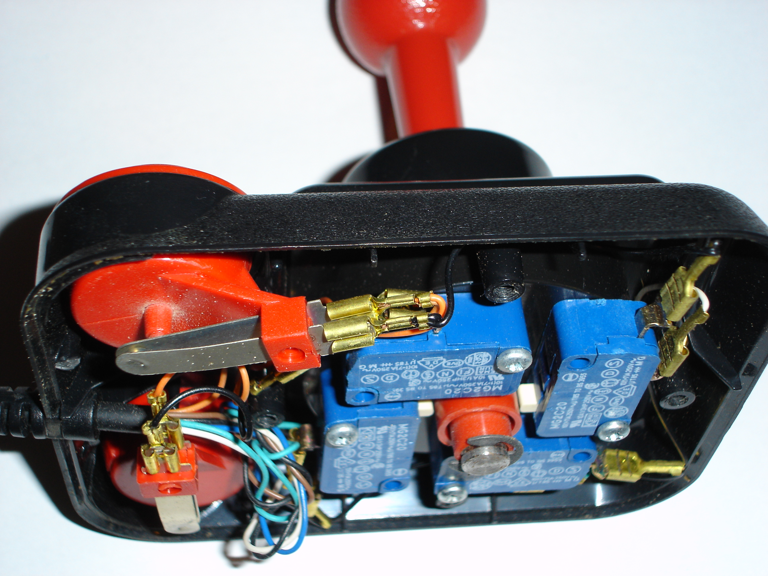 Inside of a Competition Pro joystick of the second series